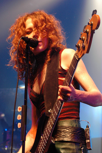 Melissa Auf der Maur performing in concert.